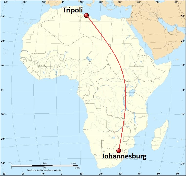 Map showing Afriqiyah Airways Flight 771's last flight. Flight 771 crashed May 12, 2010 06:10 local time. (04:10 UTC)